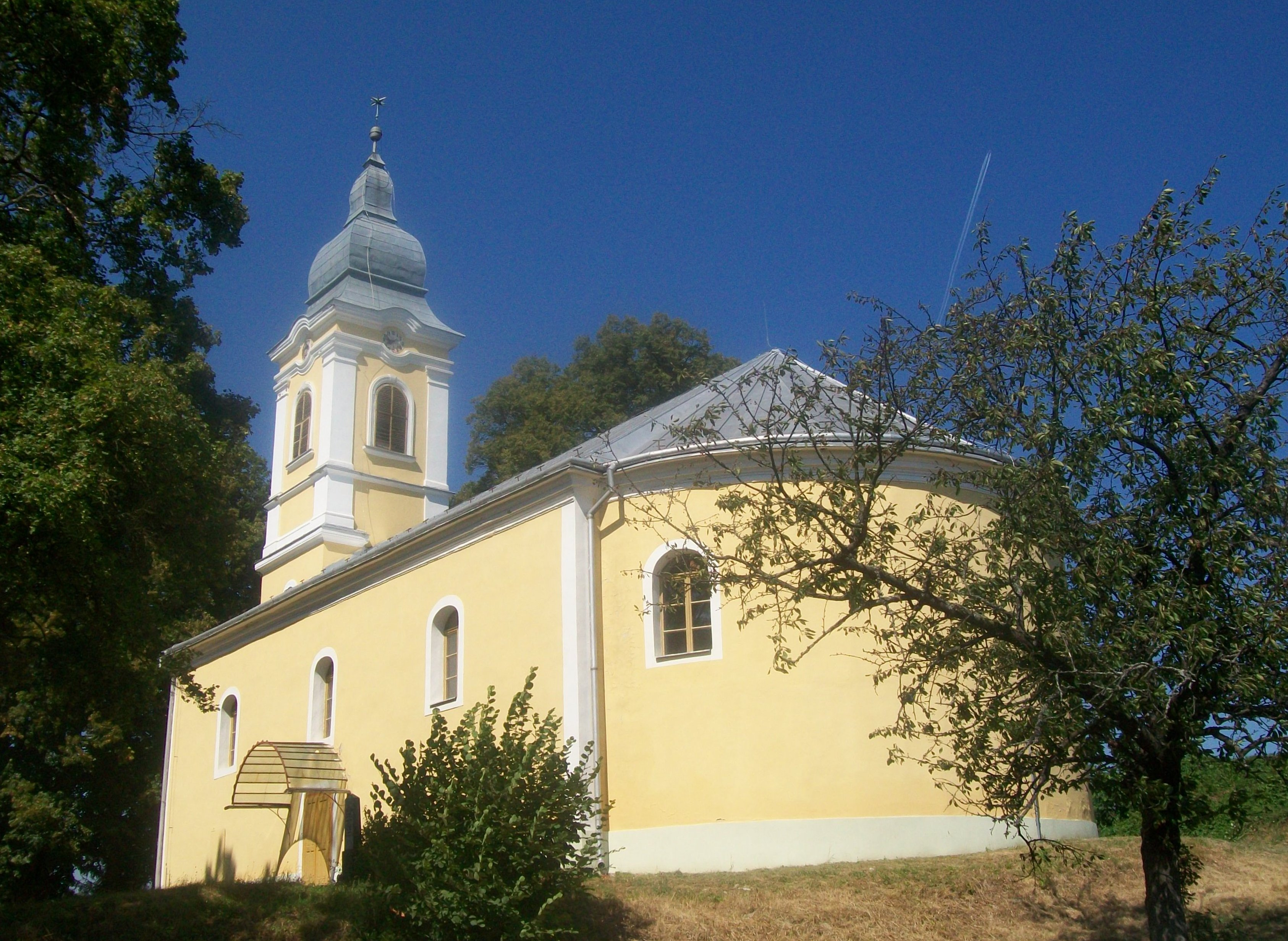 Classical Lutheran Church in 1808, built on the site of a wooden 1610Slovenčina: Kostol evanjelický klasicistický z roku 1808, postavený na mieste dreveného z roku 1610 Object location48° 28′ 23.09″ N, 19° 45′ 08.17″ E